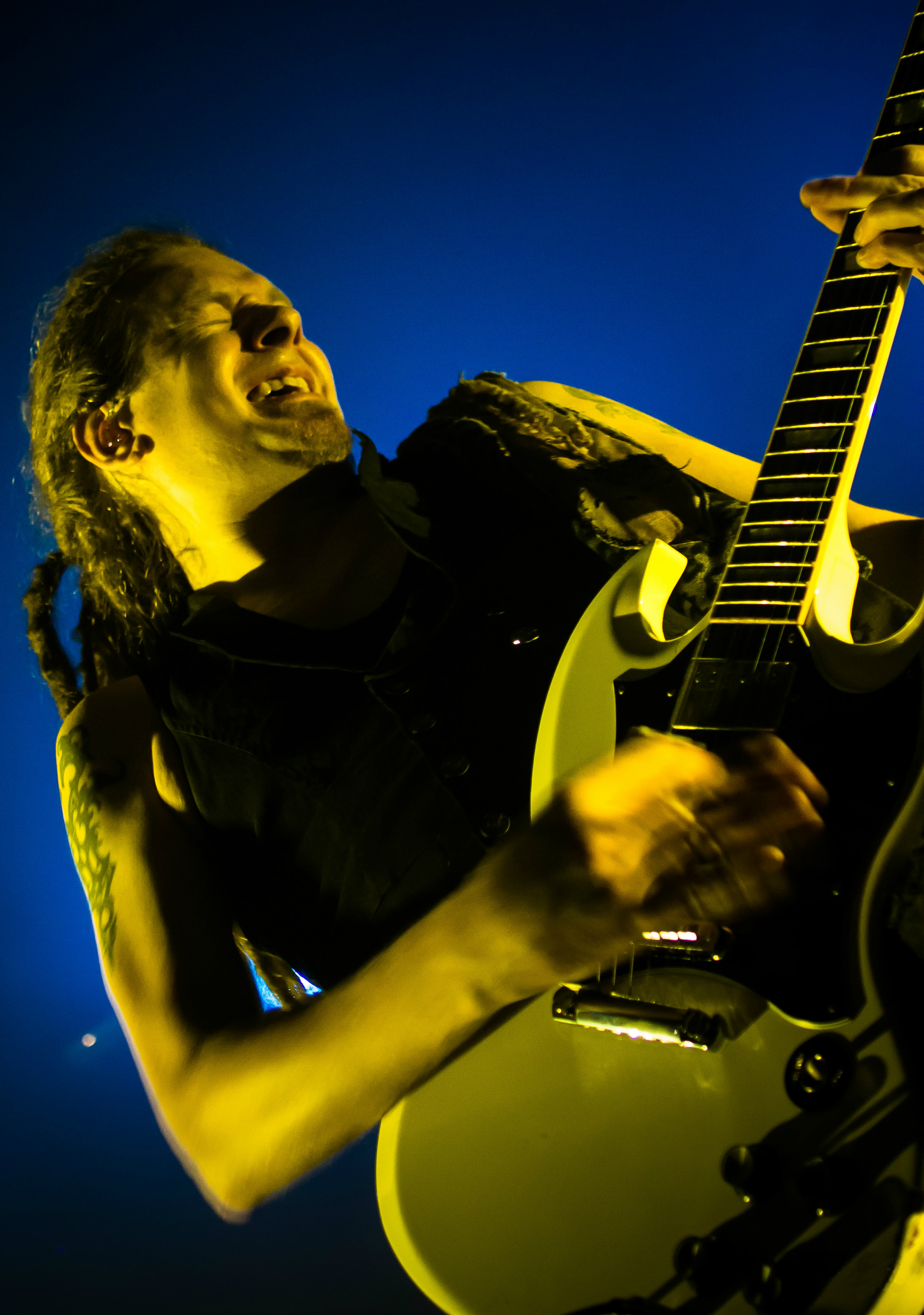 Him performing in São Paulo, Brazil on March 30, 2014.